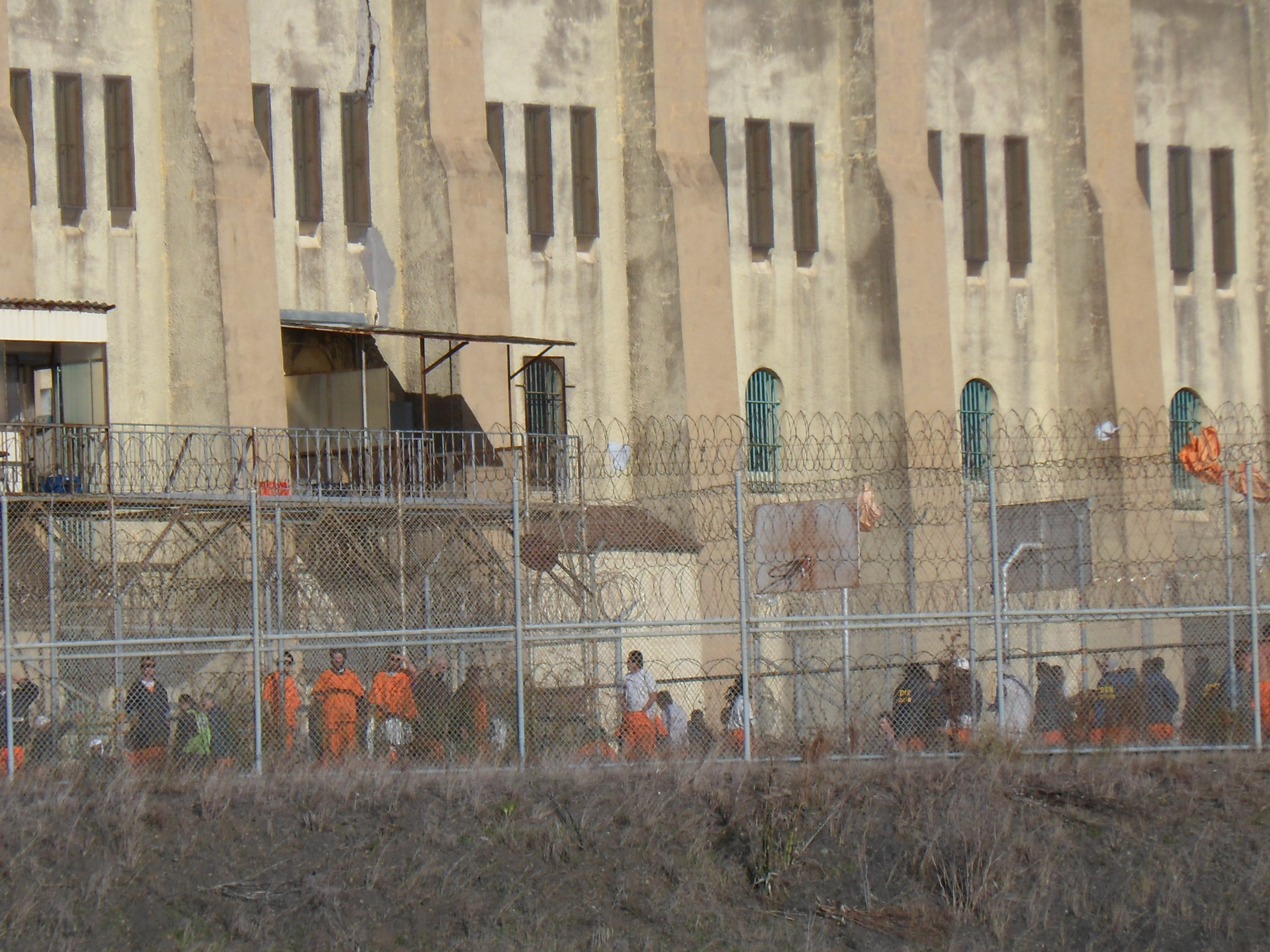 San Quentin State Prison